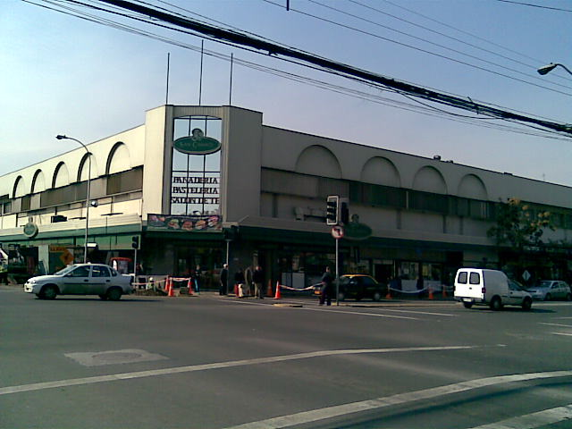 San Pablo Av. and Matucana St. corner. Santiago, Chile